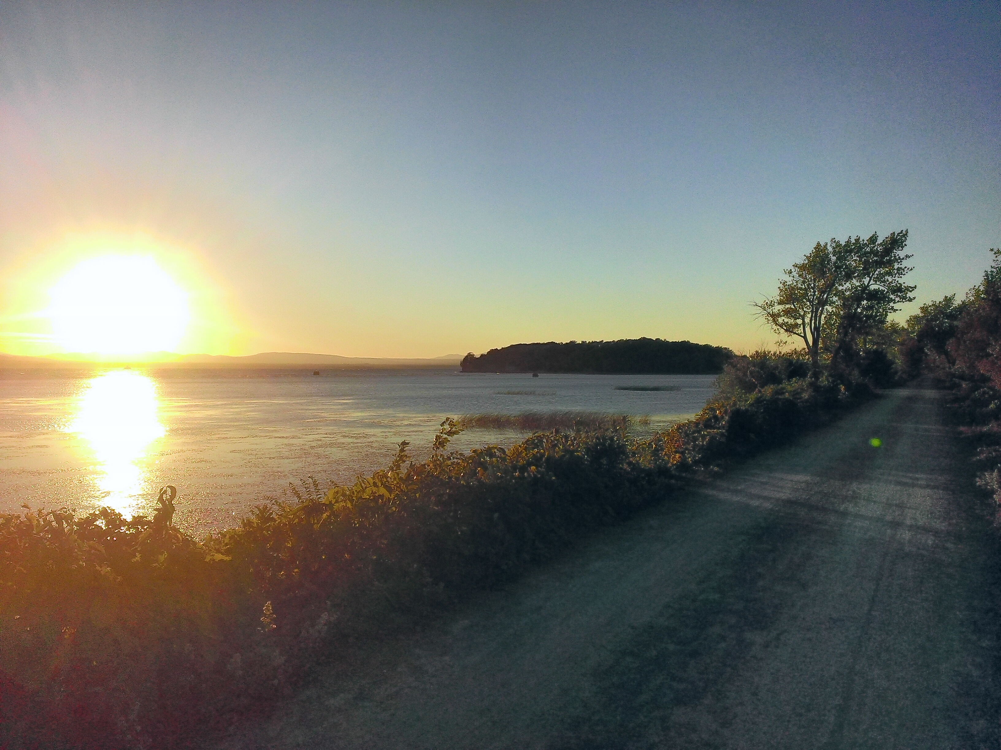 The Island Line Trail at sunset 9/27/15.